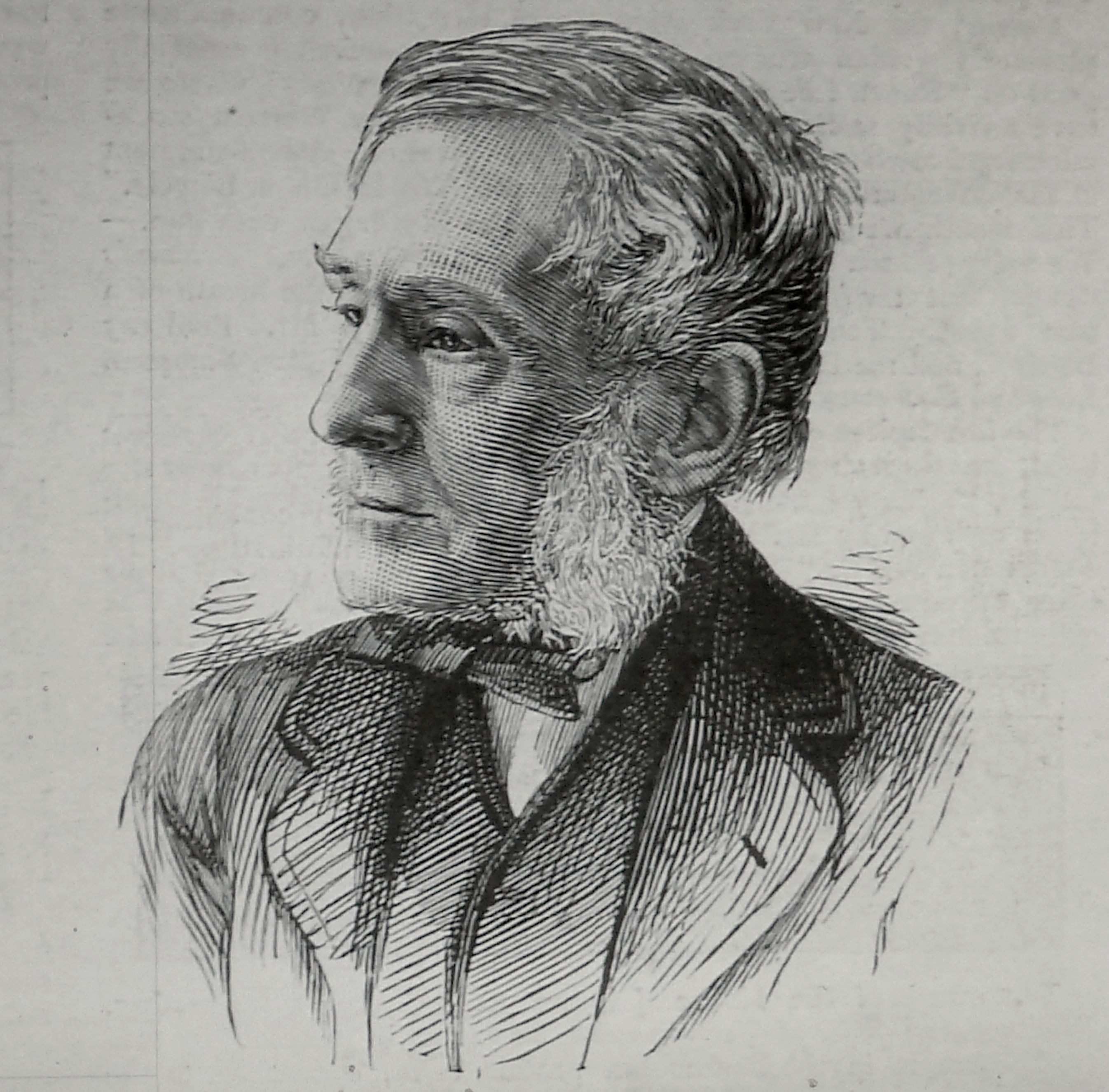 Engraving from photograph of James Poole (1803-1886), landscape artist of Sheffield, South Yorkshire, England.